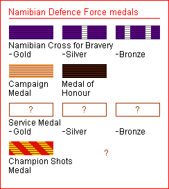 Chart of Namibian Defence Force medal ribbons, created to illustrate the article on 'Orders, decorations and medals of Namibia'.